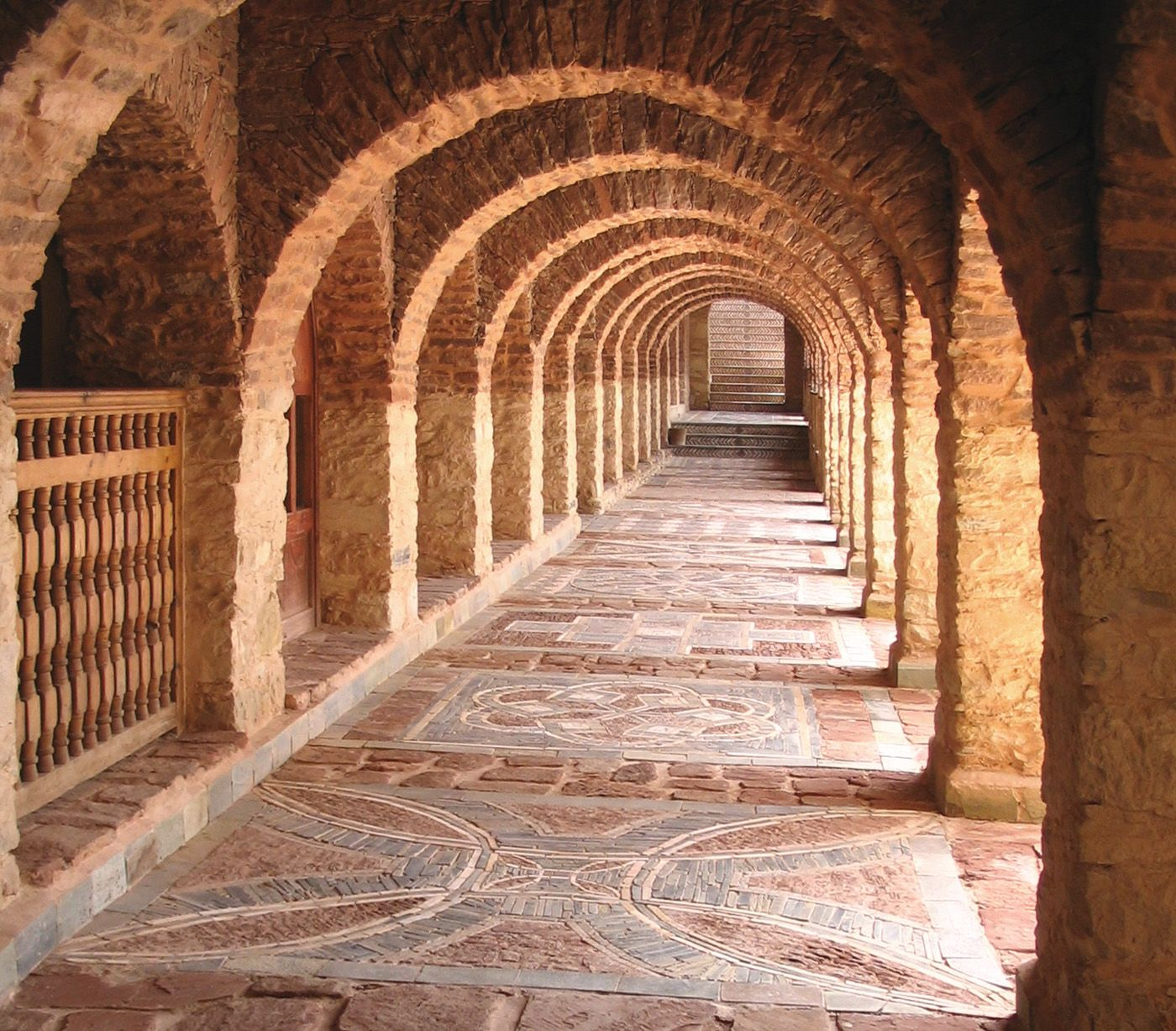 Medina in Agadir (Marocco).